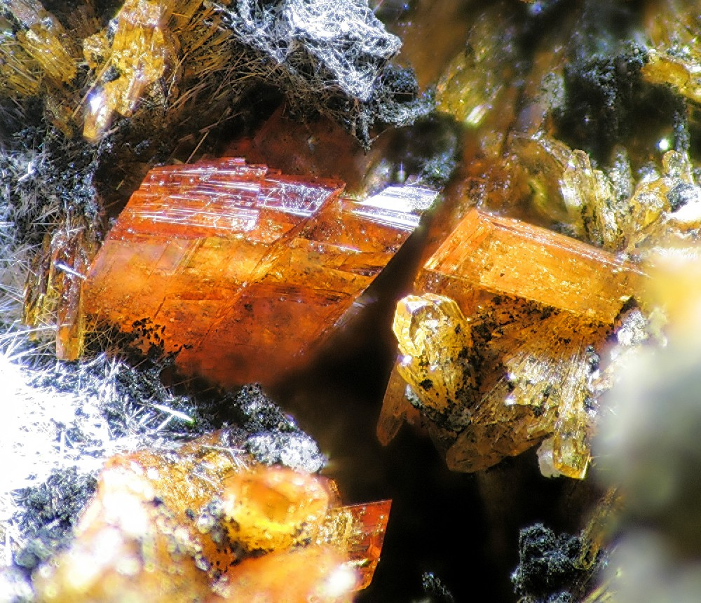 Laueite Locality: Hagendorf South Pegmatite (Cornelia Mine; Hagendorf South Open Cut), Hagendorf, Waidhaus, Vohenstrauß, Oberpfälzer Wald, Upper Palatinate, Bavaria, Germany (Locality at ) Orange-brown laueite with yellow Jahnsite. Picture width 2 mm. Collection and Photo Christian Rewitzer